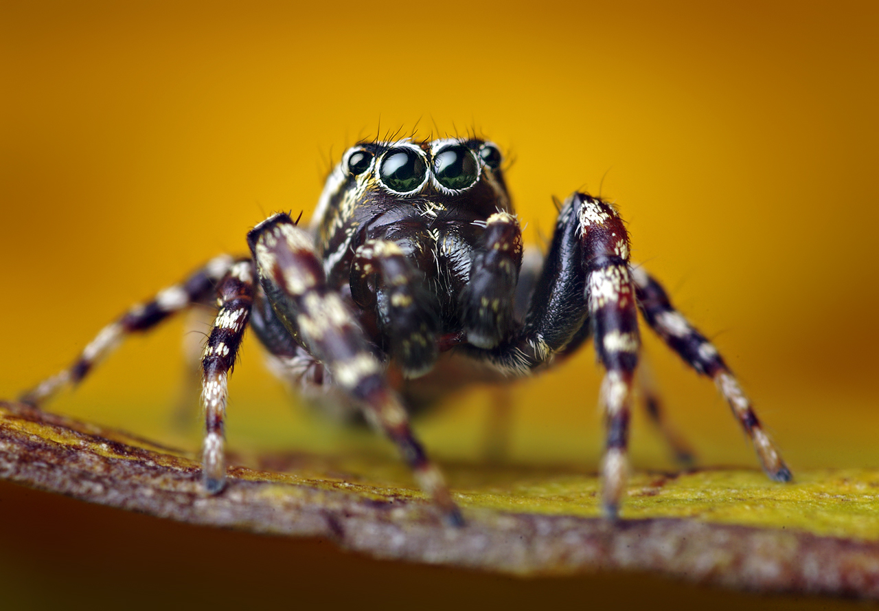 Found this little (~4mm) jumper on a cactus this morning. Taken at ~4.5:1 magnification with a reversed 28mm at f/8 on some extension tubes.